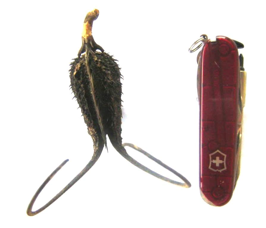 Ibicella lutea's fruit.